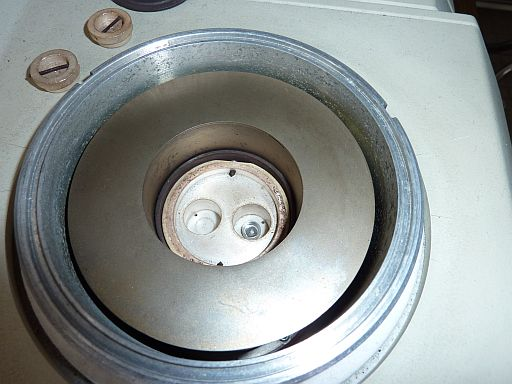 Photo inside the differential scanning calorimeter